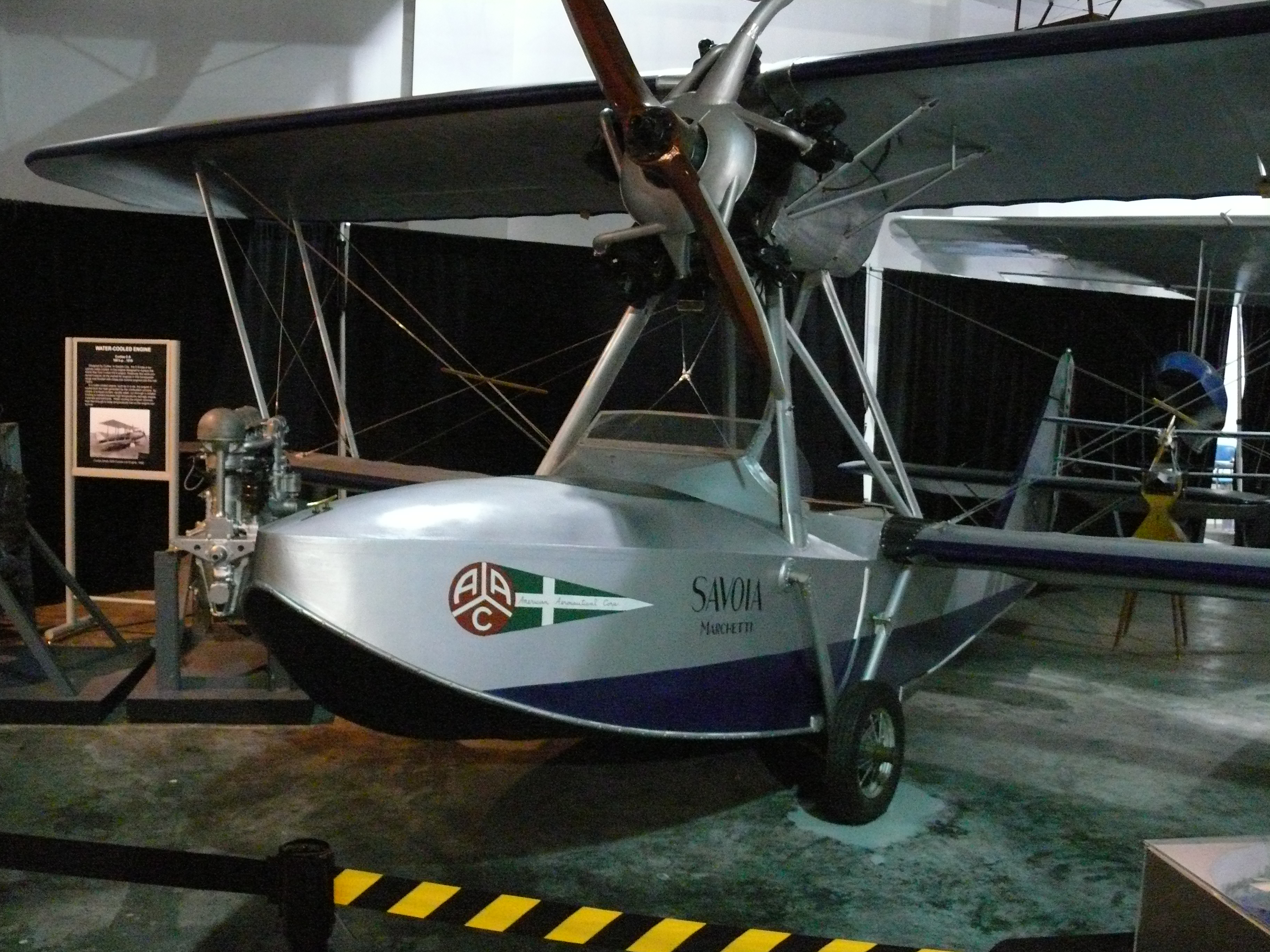 Savoia-Marchetti S.56 in the Cradle of Aviation Museum. The Savoia-Marchetti S.56 was an Italian single-engine biplane flying boat trainer and tourer, built by Savoia-Marchetti. The S.56A proved popular in the U.S., and the American Aeronautical Corporation set up licence production in 1929, relying on the 67 kW (90 hp) Kinner K5 radials for power for three two-place aircraft and over 40 three-seaters. Like many other designs of the period, the S-56 succumbed to the Depression. Of the 36 built, this is one of two surviving examples.